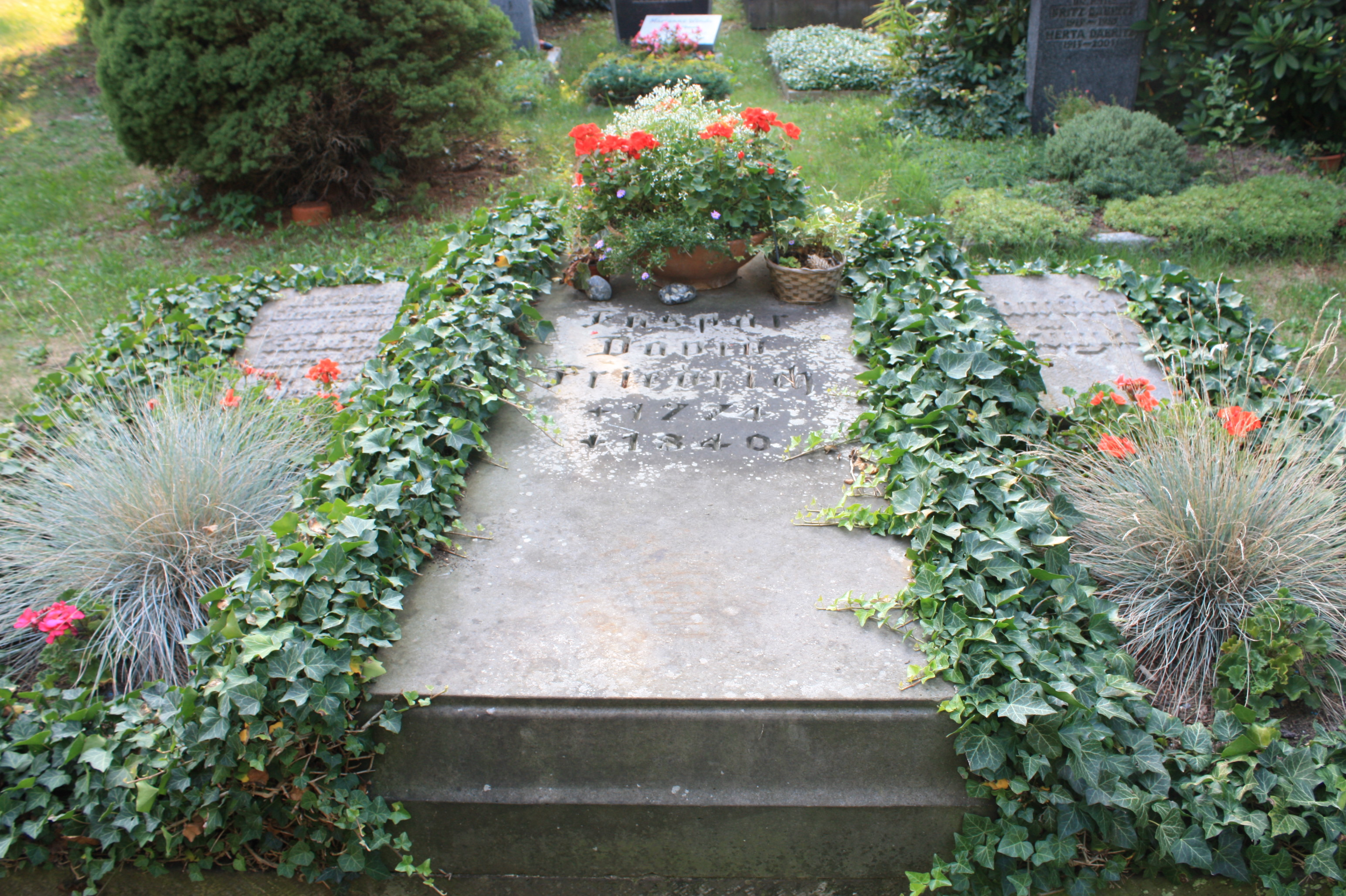 The grave of Caspar David Friedrich, Trinitatis-Friedhof, Dresden